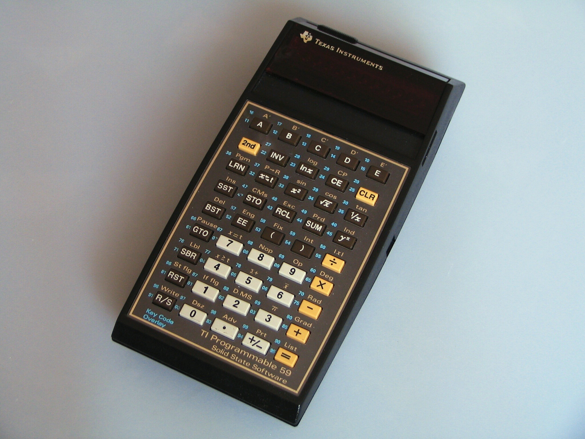 TI-59 with keyboard overlay Česky: TI-59 s fólií na klávesnici